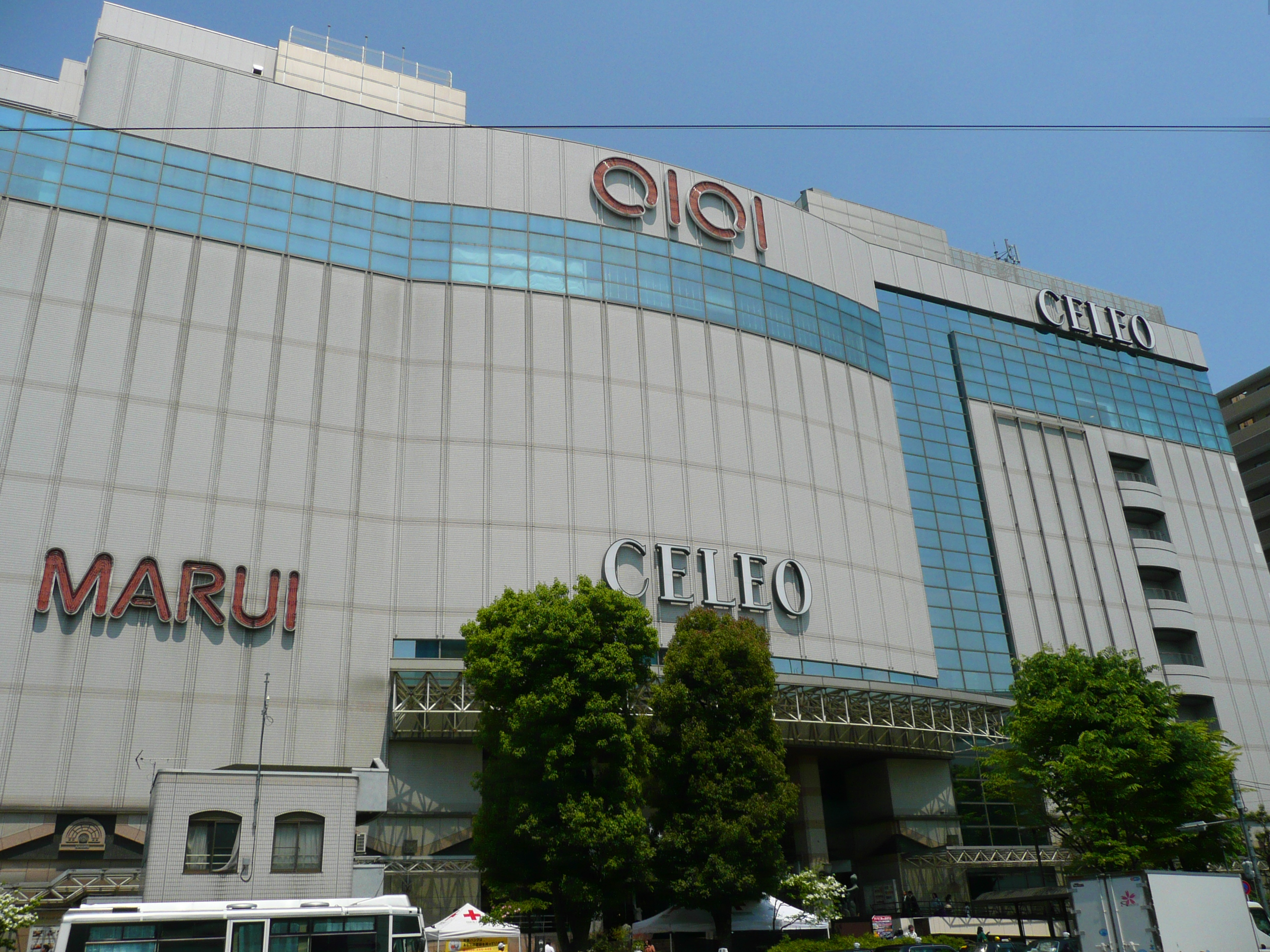 South Entrance of Kokubunji Station